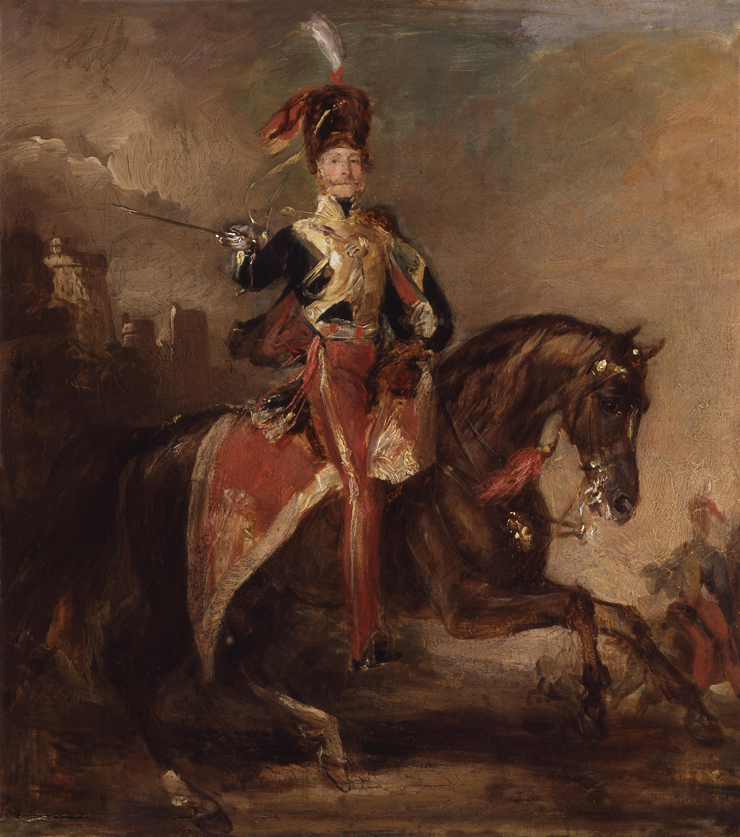 All images in this batch have been confirmed as author died before 1939 according to the official death date listed by the NPG.